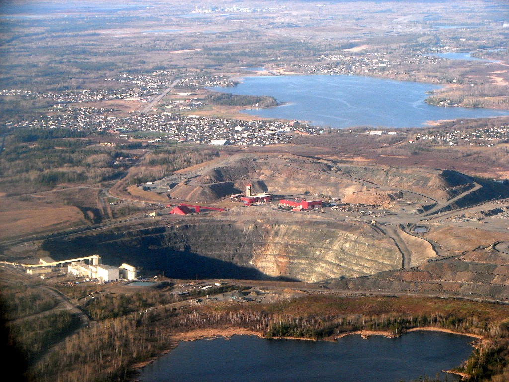 Aerial view of Dome Mine (with South Porcupine in background), Ontario, Canada